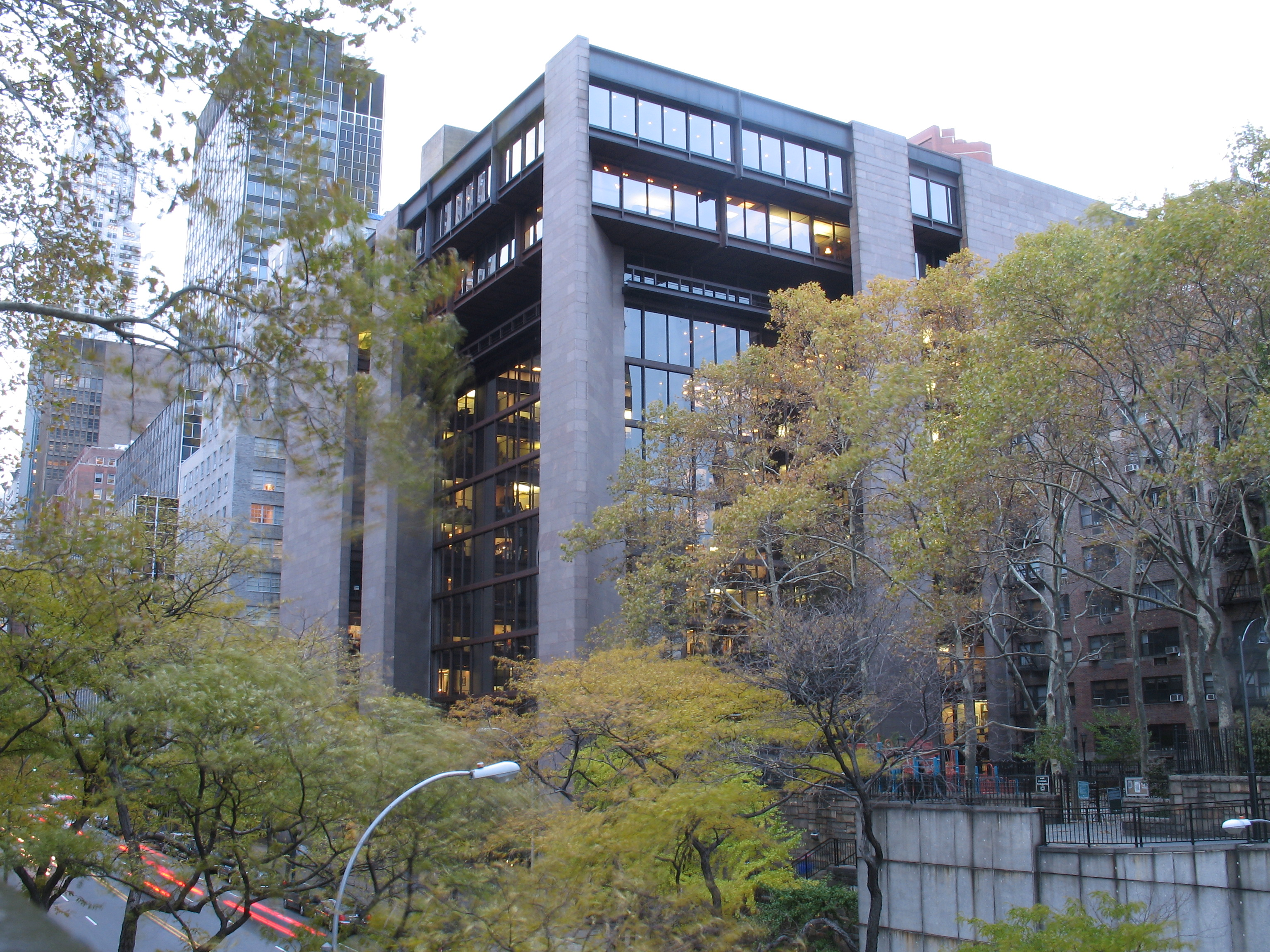 corner façade of the Ford Foundation Building in New York City. See also File:Ford Foundation HQ jeh.JPG